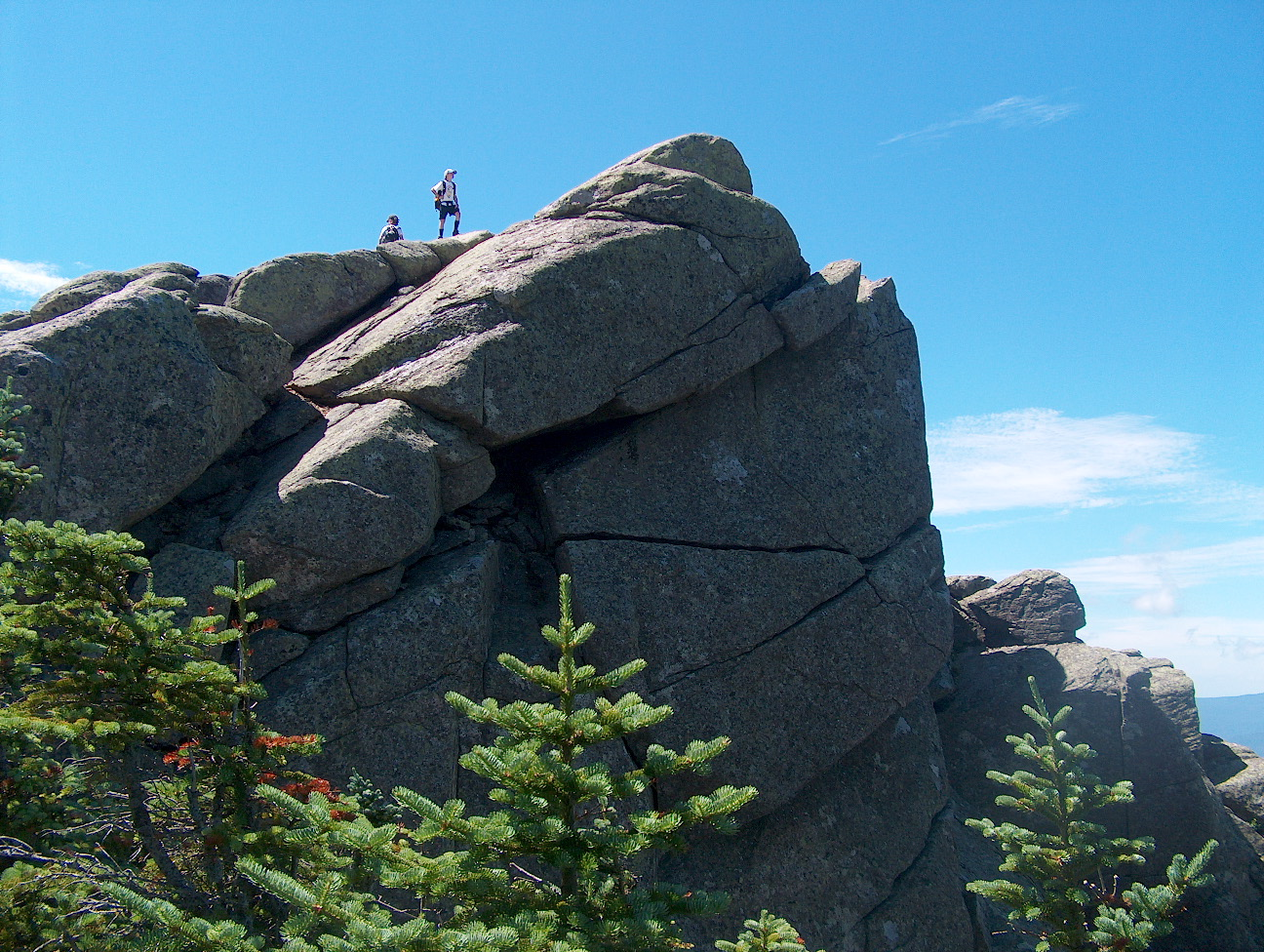 Summit of Mount Liberty, New Hampshire. Photo by Ken Gallager, July 21, 2005.